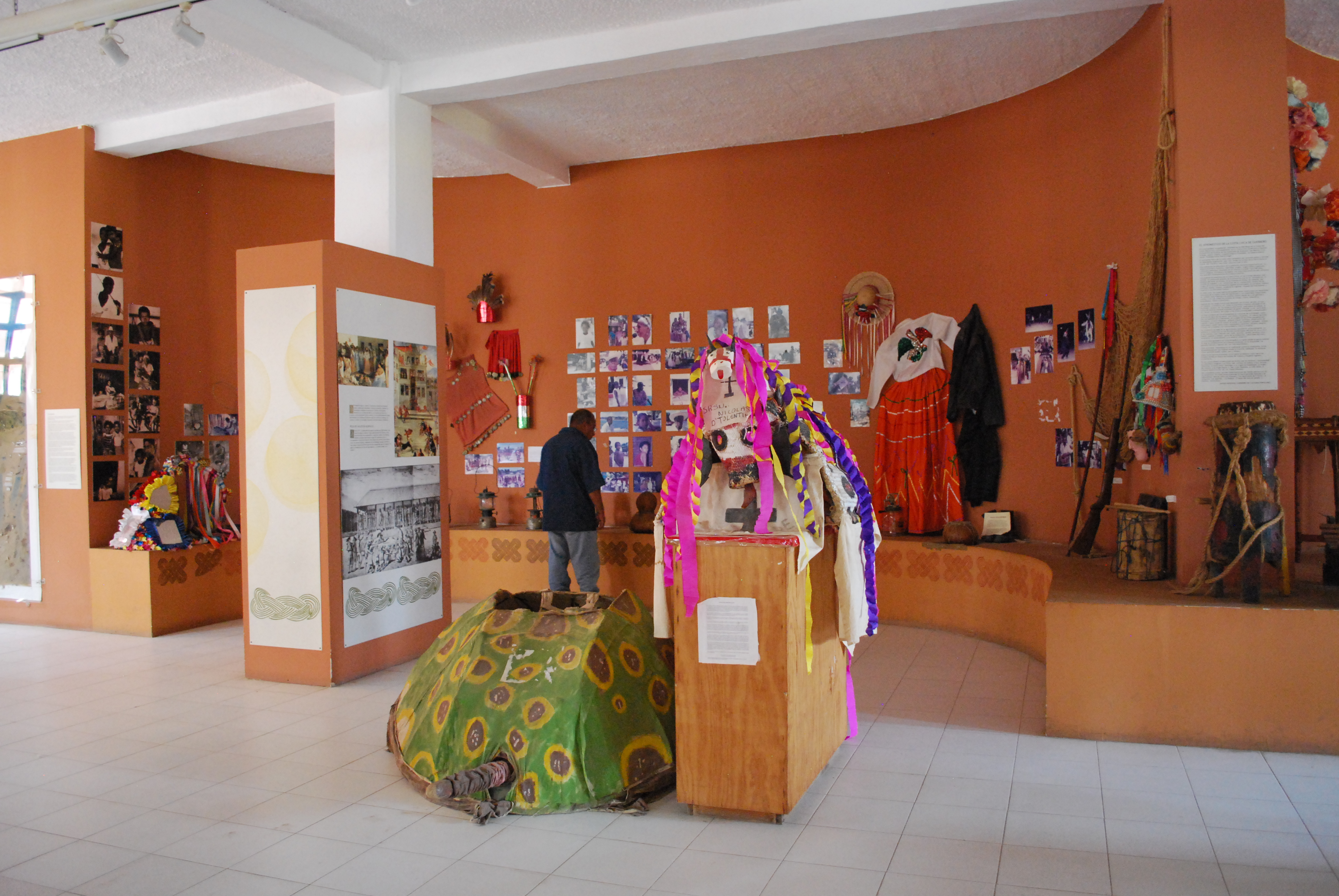 View inside the Museo de las Culturas Afromestizas in Cuajinicuilapa, Guerrero